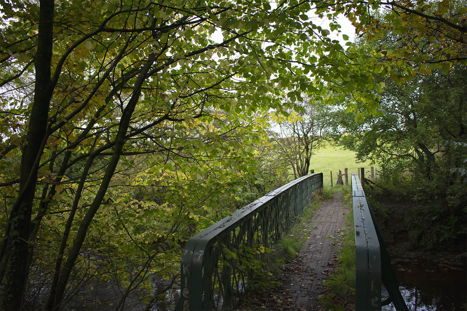 Footbridge over the Rotten Calder Following on from one of the least accessible stretches of the Clyde Walkway, this little footbridge leads over the Rotten Calder, which flows into the Clyde from the south (from the right, in this photo). The railway line runs just a little to the south of this bridge. The footpath that can be seen leading away from the bridge runs straight ahead for only 200 metres, with the railway line just above and to the right of it; the path then turns right, leading through a railway underpass.